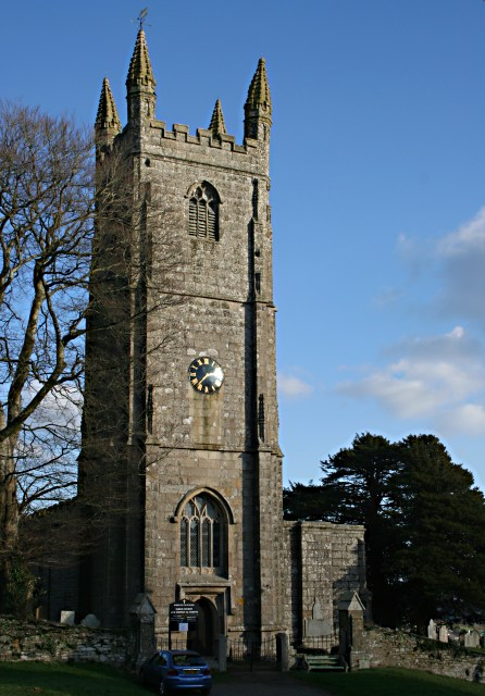 St Stephens Church This church was consecrated in 1259 and like many parish churches underwent a major restoration in the late 19th century.